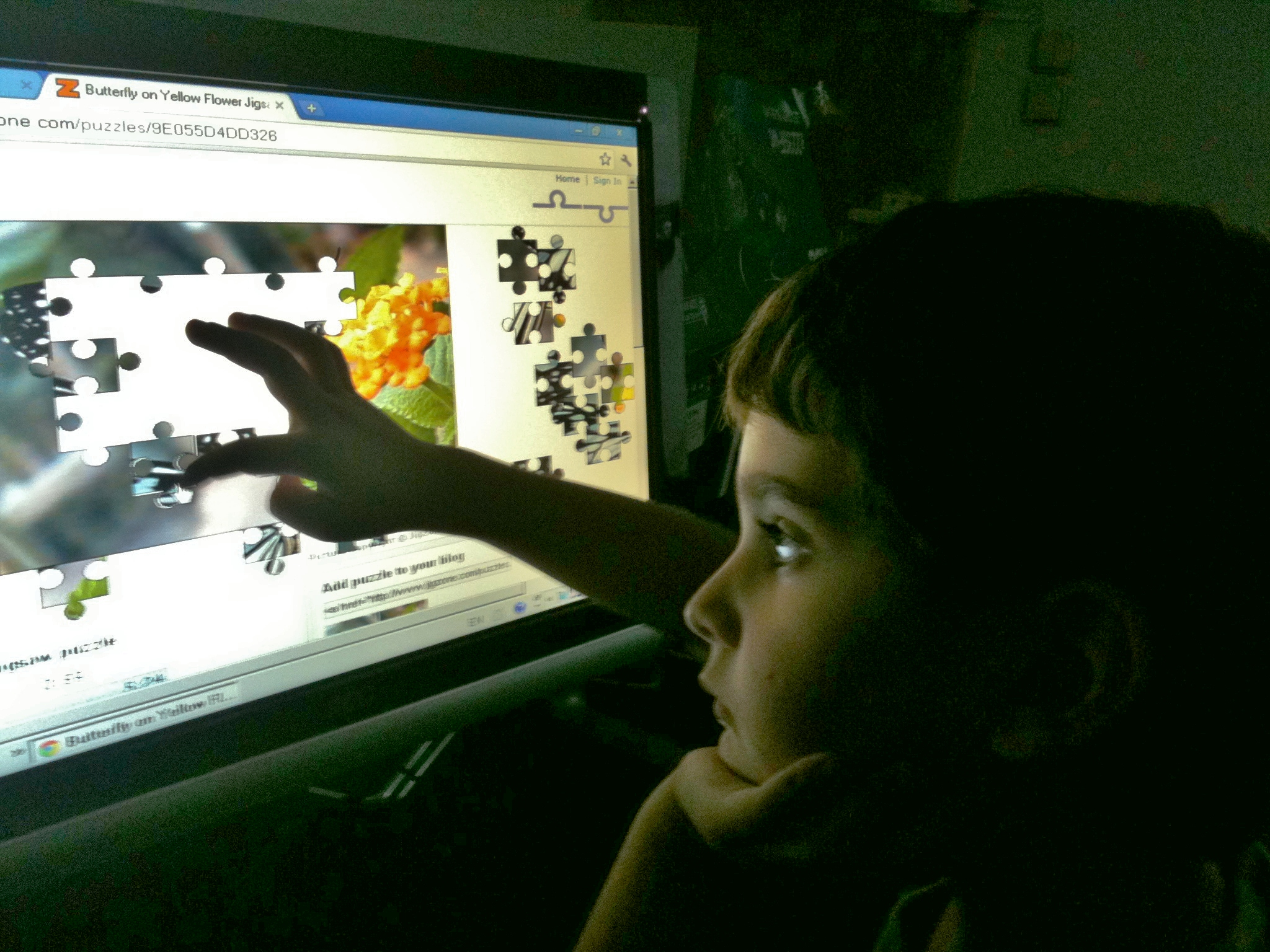 Touchscreen